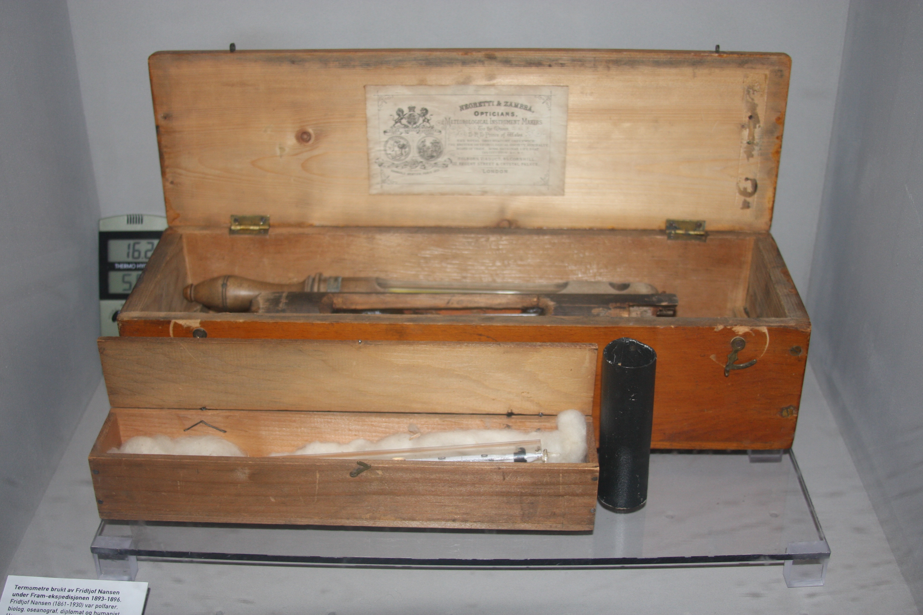 Thermometer set used by Frithjof Nansen on his Fram expidition beyond Franz Josef Land, 1893-96. Technical Museum, Oslo